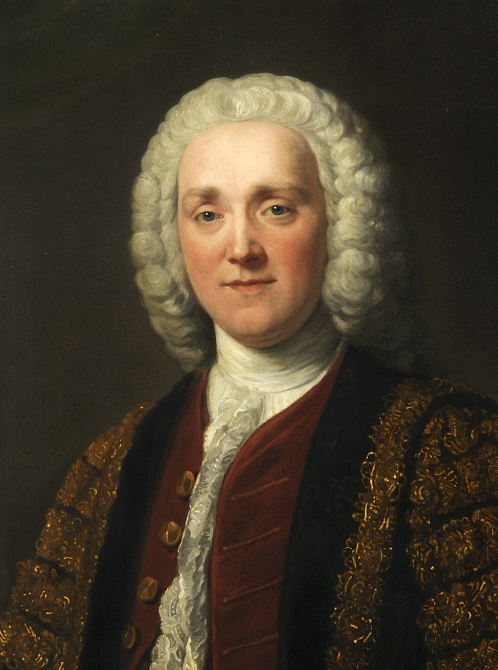 Portrait of George Grenville (1712–1770)